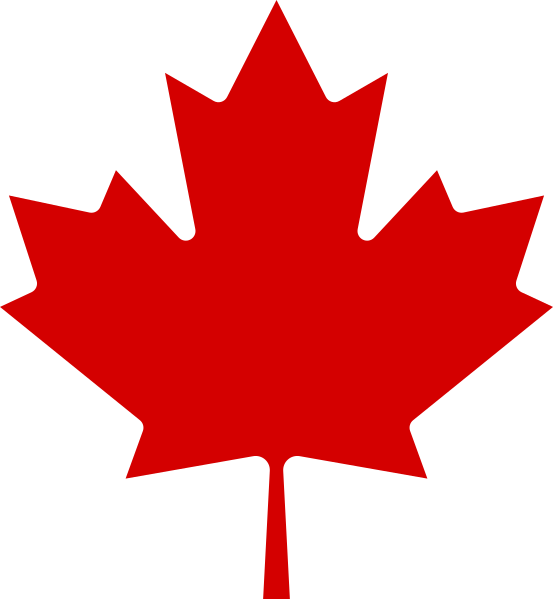 A red maple leaf, darker than it appears on the flag of Canada, coloured for the Liberal Party of Canada.